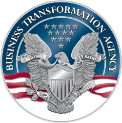 The official logo of the Business Transformation Agency